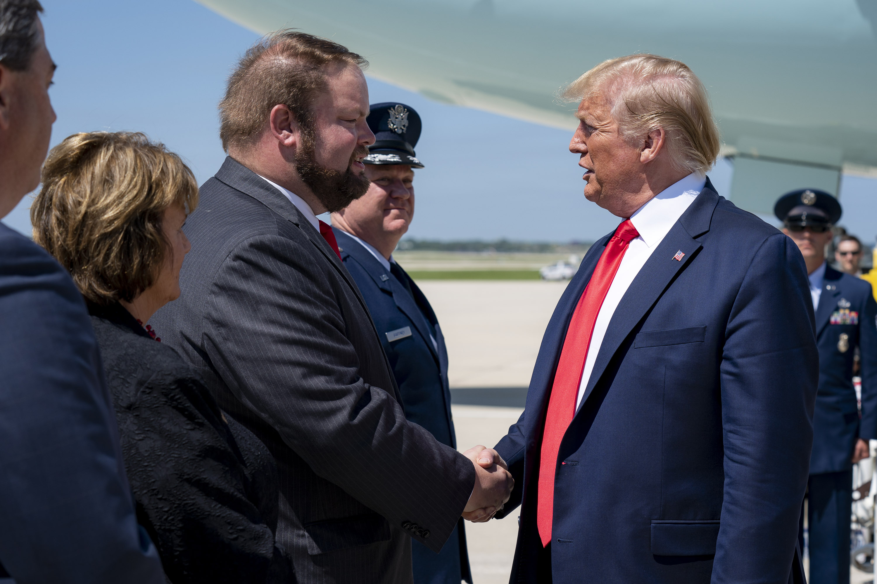 President Donald J. Trump is greeted by Wisconsin State Rep. Tyler August upon his arrival aboard Air Force One at General Mitchell International Airport Friday, July 12, 2019, in Milwaukee, Wisc. (Official White House Photo by Tia Dufour)